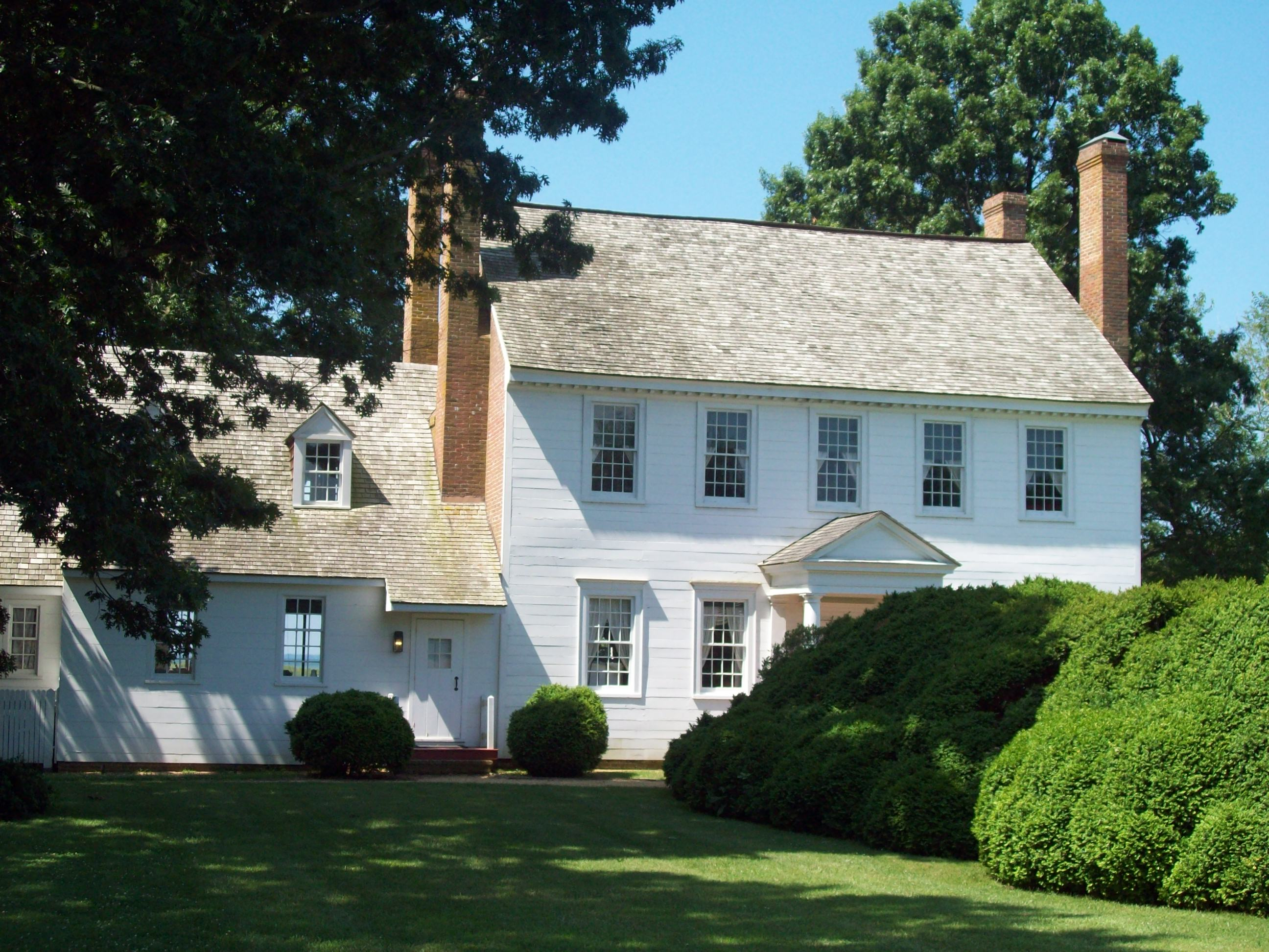 Woodlawn